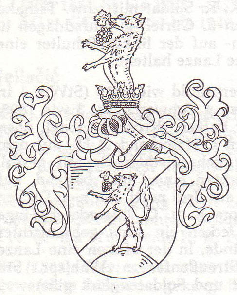 Coat of arms of the german family „von Jena“ (since 1663)